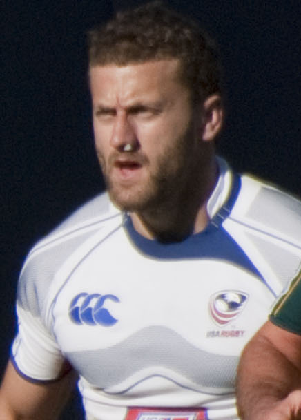 Australia and Canada were among the 16 countries competing against each other at the International Seven's Rugby tournament sponsored by the National Guard at Petco Park in San Diego, February 14, 2009. (U.S. Air Force Photo by Tech Sgt. Julie Avey)